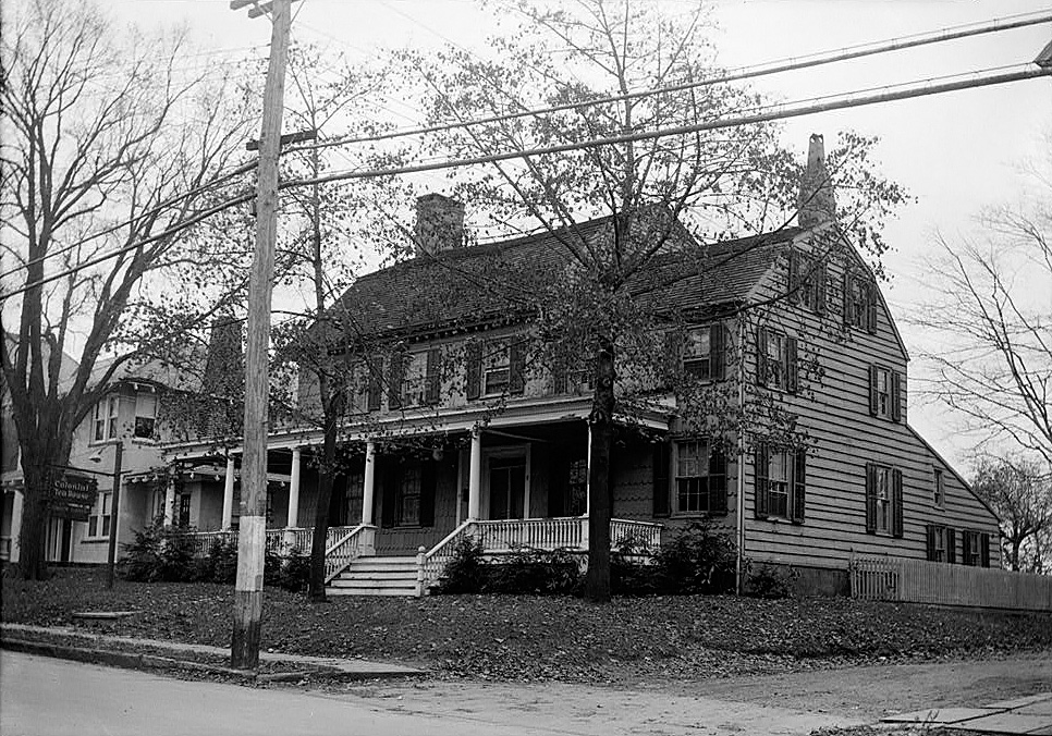 Title: Burrowes Mansion, 94 Main Street, Matawan, Monmouth, NJ Other Title: New Jersey Coastal Heritage Trail Creator(s): Historic American Buildings Survey, creator Related Names: Bowne, John Burrowes, Maj. John Medium: Measured Drawing(s): 22(18 x 24 in.) Photo(s): 8 (4 x 5 in. and 5 x 7 in.) Data Page(s): 10 plus cover page Photo Caption Page(s): 1 Reproduction Number: [See Call Number] Call Number: HABS NJ,13-MAT,1- Repository: Library of Congress, Prints and Photographs Division, Washington, D.C. 20540 USA Notes: * Survey number HABS NJ-198 * Unprocessed field note material exists for this structure (FN-97). * Building/structure dates: 1723 initial construction * National Register of Historic Places NRIS Number: 72000803 Subjects: * houses * tea rooms * historic house museums * NEW JERSEY--Monmouth--Matawan Collections: * Historic American Buildings Survey/Historic American Engineering Record/Historic American Landscapes Survey Part of: Historic American Buildings Survey (Library of Congress) Contents: Photograph caption(s) 1. Historic American Buildings Survey Samuel E. Tilton, Photographer November 13, 1935 EXTERIOR - EAST AND NORTH ELEVATIONS 2. Historic American Buildings Survey Nathaniel R. Ewan, Photographer June 24, 1936 EXTERIOR - SOUTH AND EAST ELEVATIONS 3. Historic American Buildings Survey Samuel E. Tilton, Photographer November 13, 1935 EXTERIOR - WEST ELEVATION 4. Historic American Buildings Survey Nathaniel R. Ewan, Photographer June 24, 1936 INTERIOR - STAIR AND HALL DETAIL 5. Historic American Buildings Survey Nathaniel R. Ewan, Photographer June 24, 1936 INTERIOR - LIVING ROOM FIREPLACE DETAIL 6. Historic American Buildings Survey Samuel E. Tilton, Photographer November 13, 1935 INTERIOR - DINING ROOM DETAIL WEST WALL Period undetermined. 7. Historic American Buildings Survey Nathaniel R. Ewan, Photographer June 24, 1936 INTERIOR - BED ROOM FIREPLACE DETAIL 8. PERSPECTIVE VIEW OF EAST FACADE LOOKING NORTH